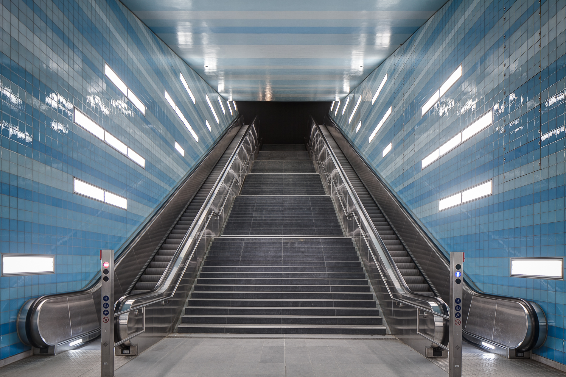 Staircase at the westside of the subway station "Ueberseequartier" in Hamburg, Germany.